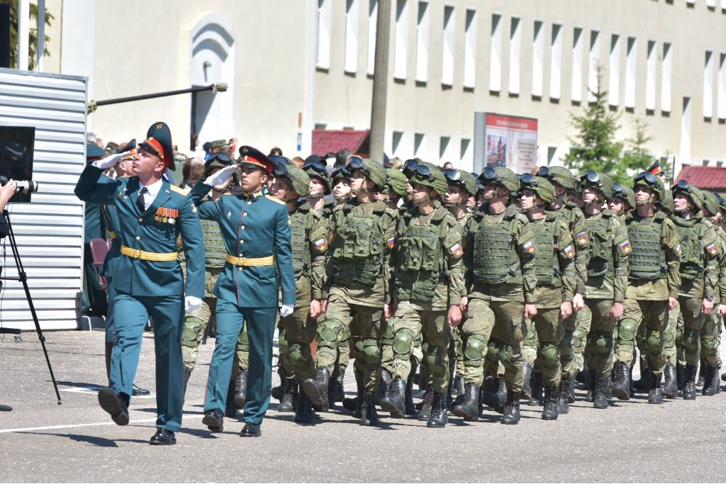 Anniversary 100 years old.